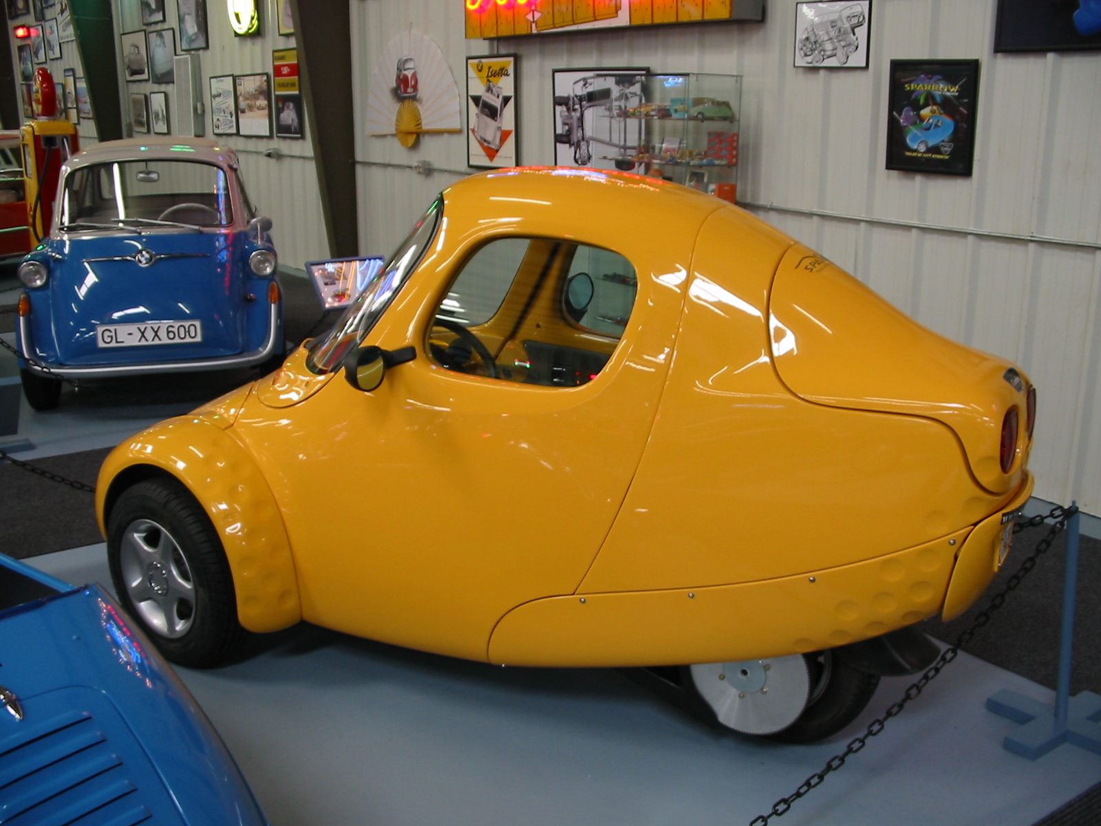 Some guy around here has a purple one.